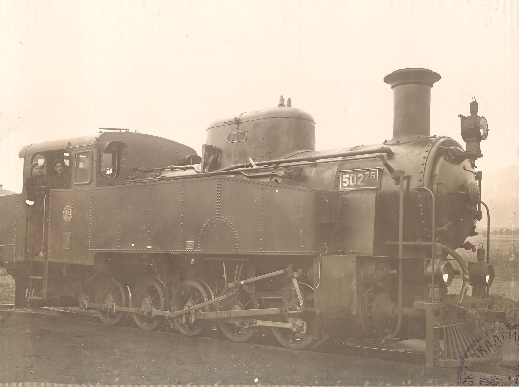 Steam locomotive 50276, Septemvri-Dobrinishte narrow gauge line, Bulgaria, 1928